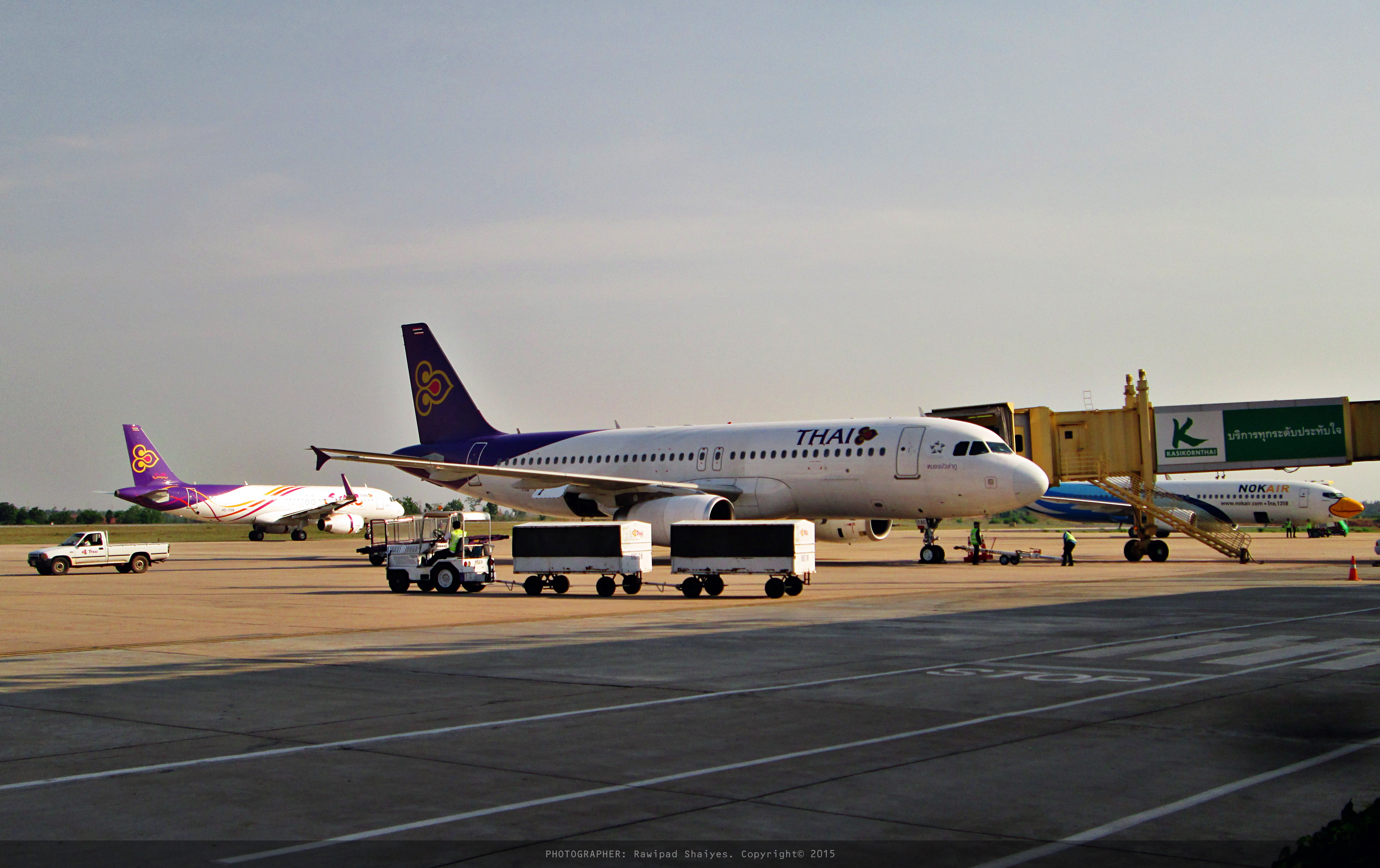 Khon Kaen Airport